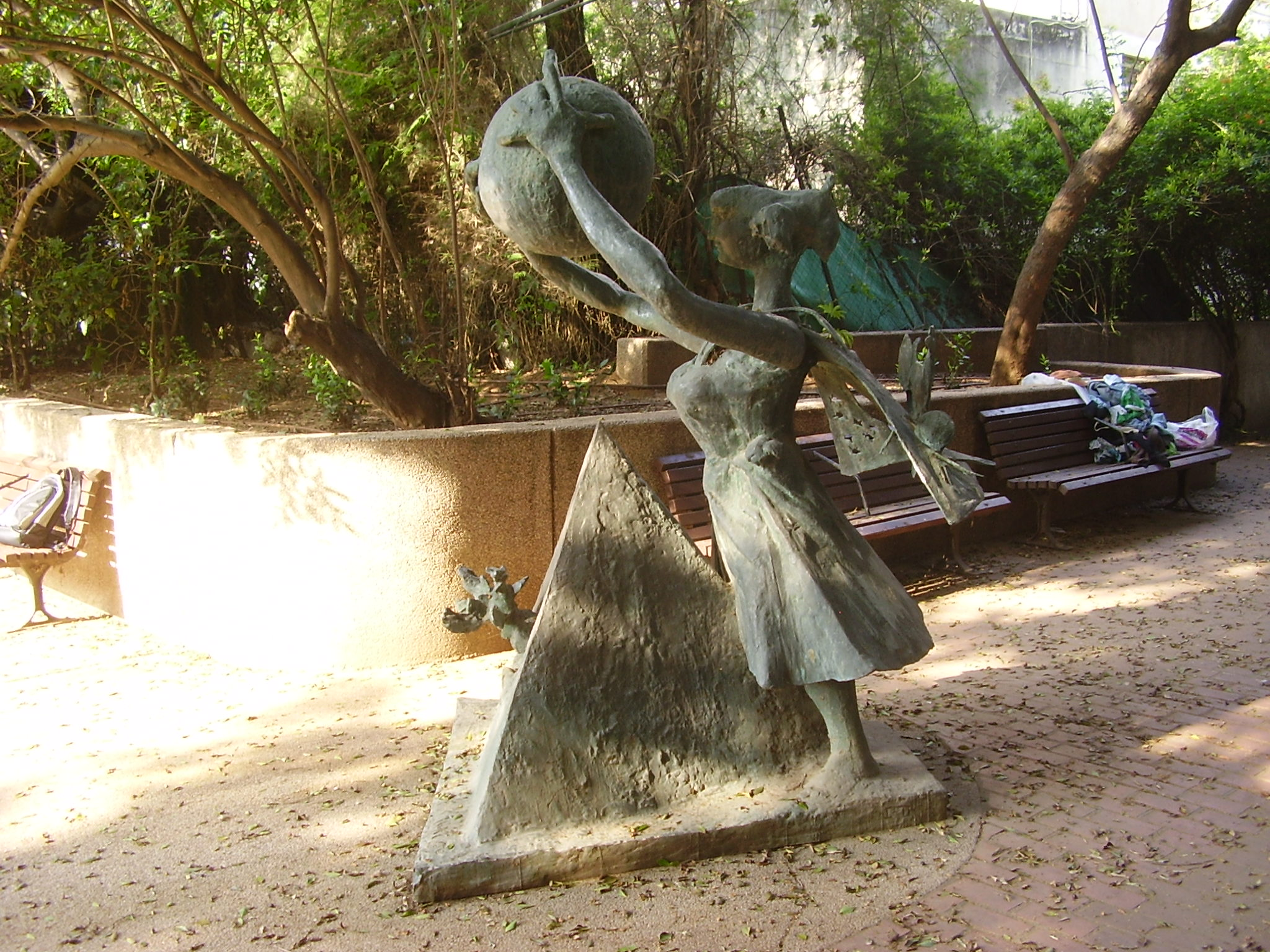 Woman with Sphere and Pyramid by Bernard Reder in Tel Aviv